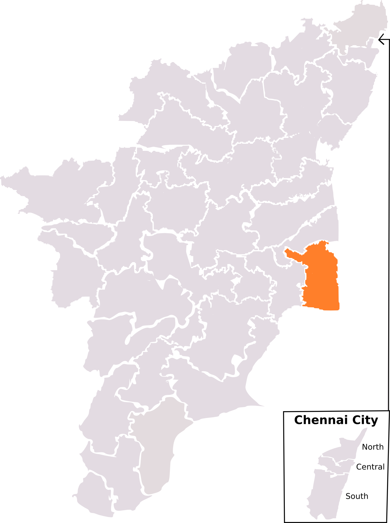 Lok Sabha Election map for Tamil Nadu. Map is based on ECI drawn map. Results are based on ECI website.